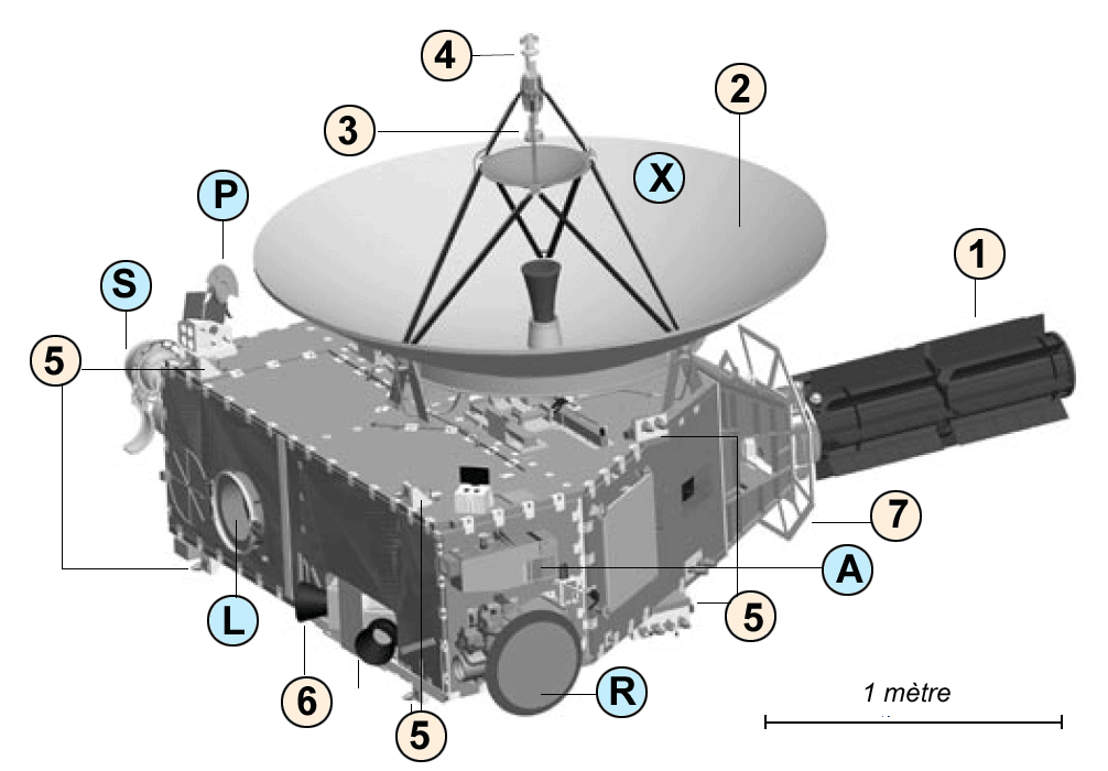 New-Horizons-drawing